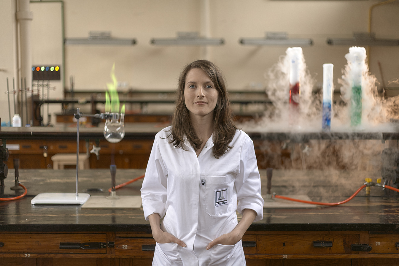 A photograph taken on my own initiative in cooperation with the Flogiston Scientific Circle of the Warsaw University of Technology.